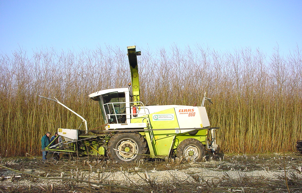 Modified Claas Jaguar 860 – Coppice short rotation willow (clones), irrigated by water from the purification plant of Villeneuve d'Ascq (town, in northern France) for final purification of water (nitrates, phosphates). This coppice was used to produce wood chips to fuel a boiler-wood.